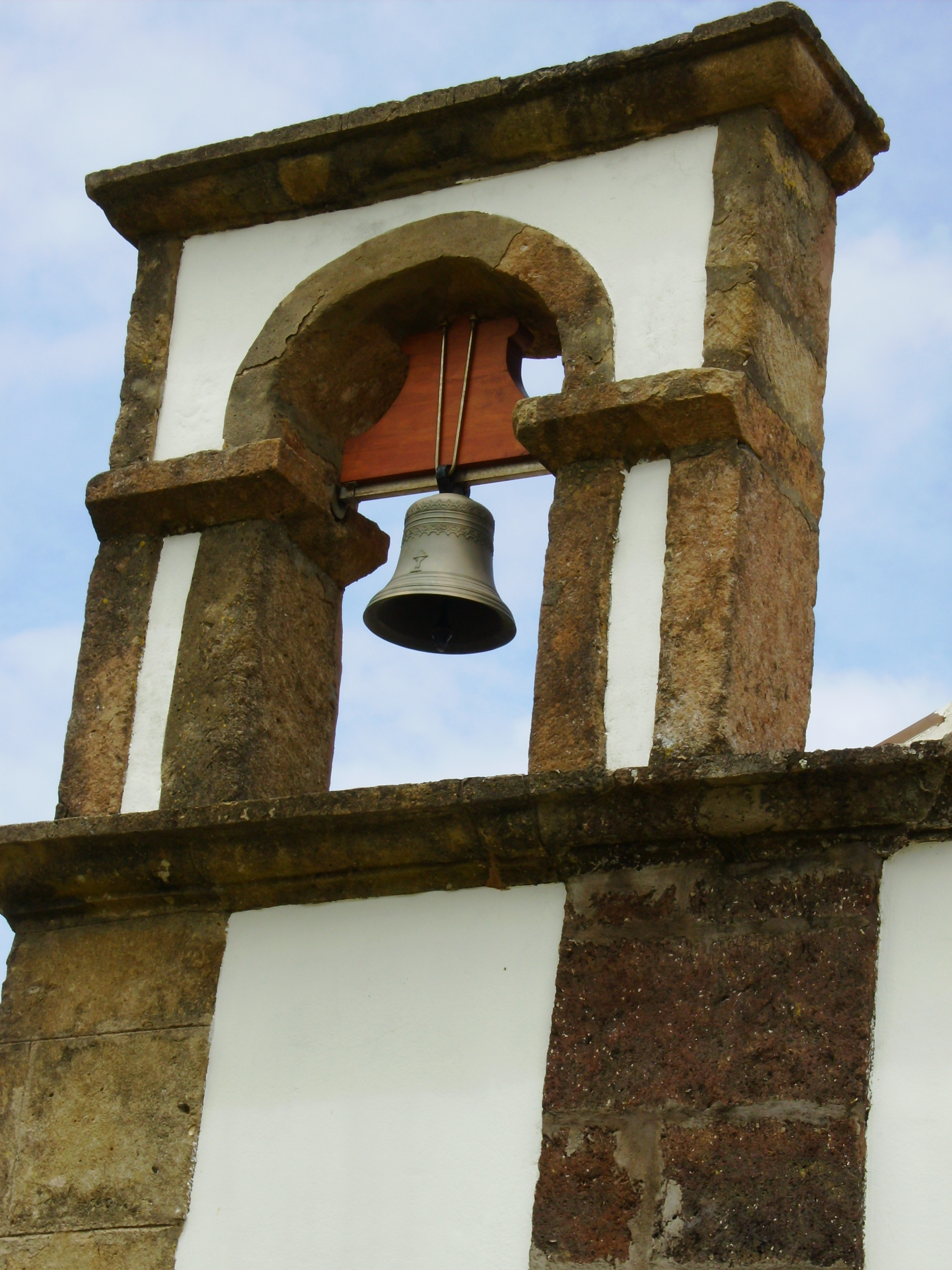 Chapel of Nossa Senhora de Monserrate, Santa Maria (Azores), Portugal